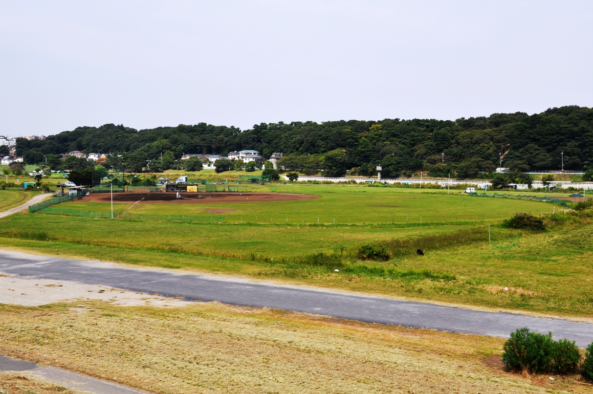 Tamagawa ground of Nippon ham baseball team